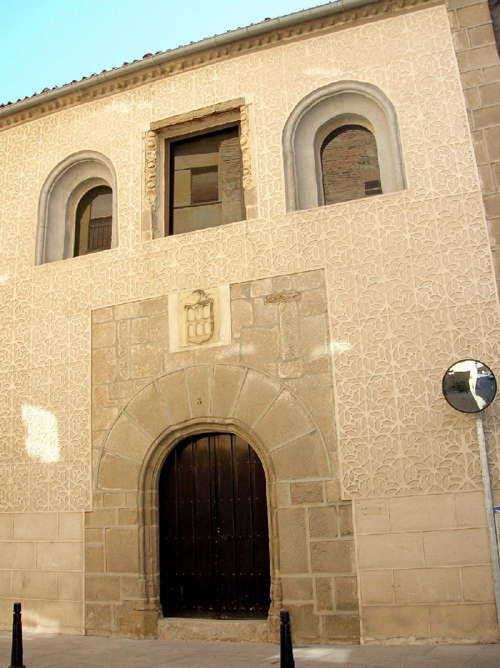 Museo de Arte Contemporaneo Esteban Vicente (antiguo Palacio Real de San Martin), en Segovia, España